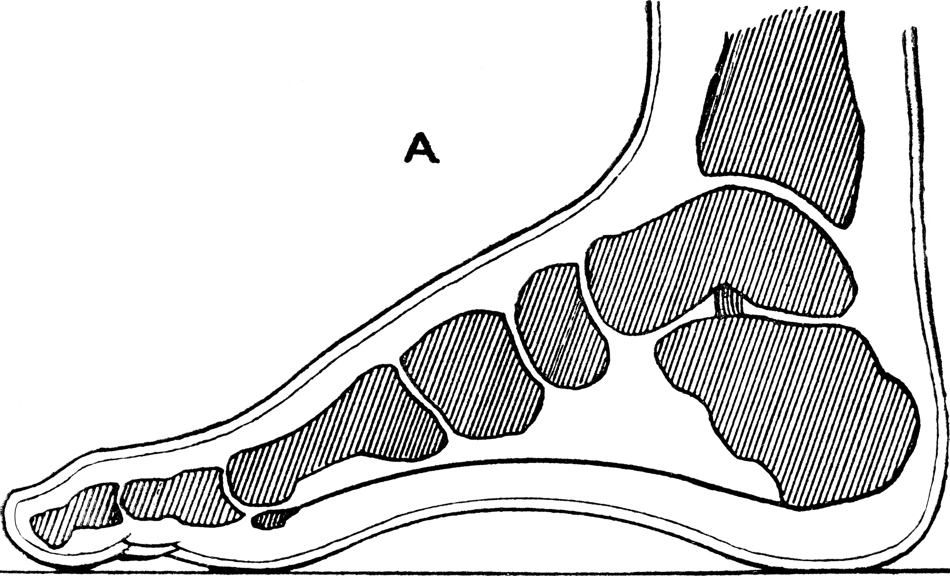 The bones of the foot at rest. (A) Normal position.